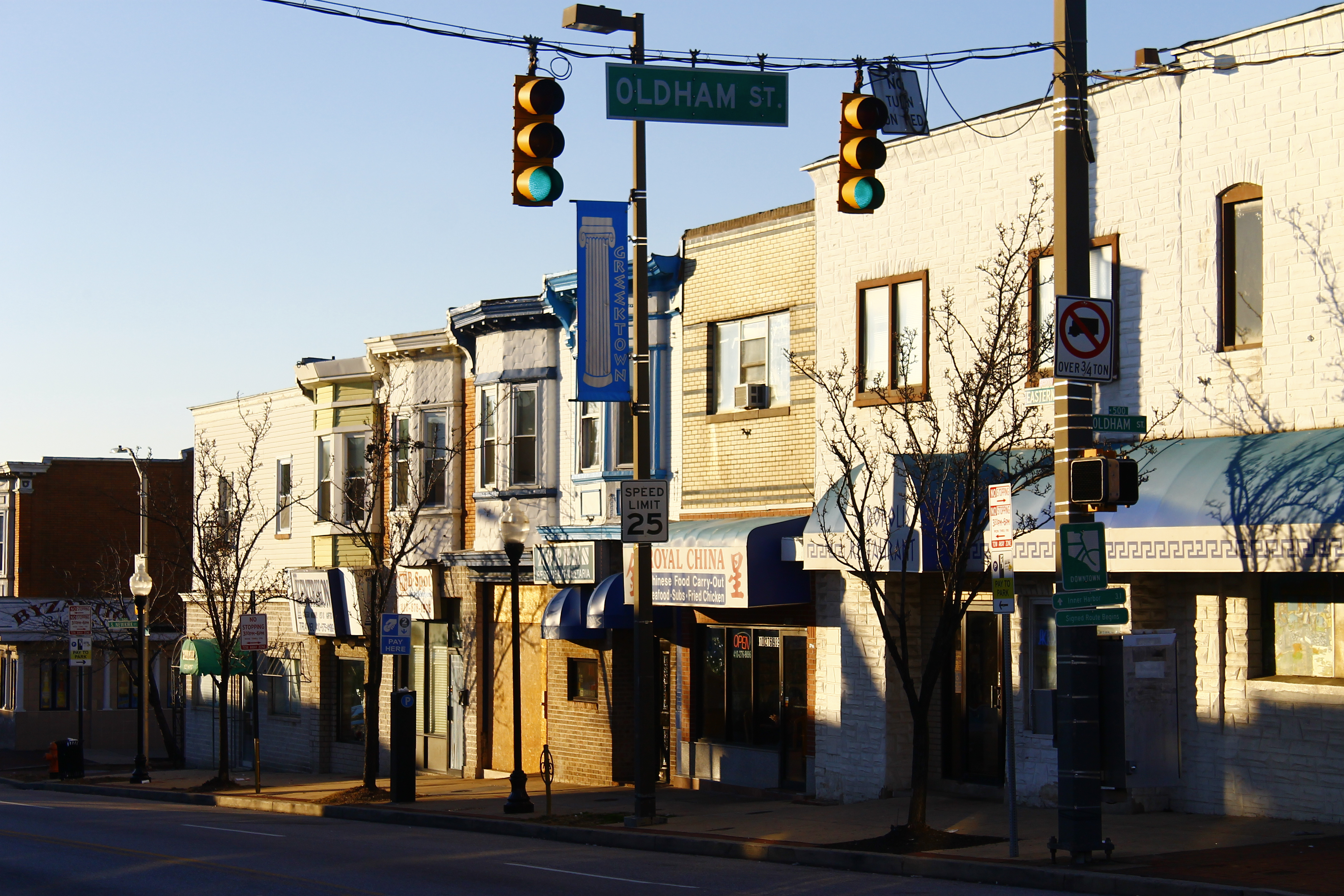 Acropolis Restaurant, Greektown, Baltimore.